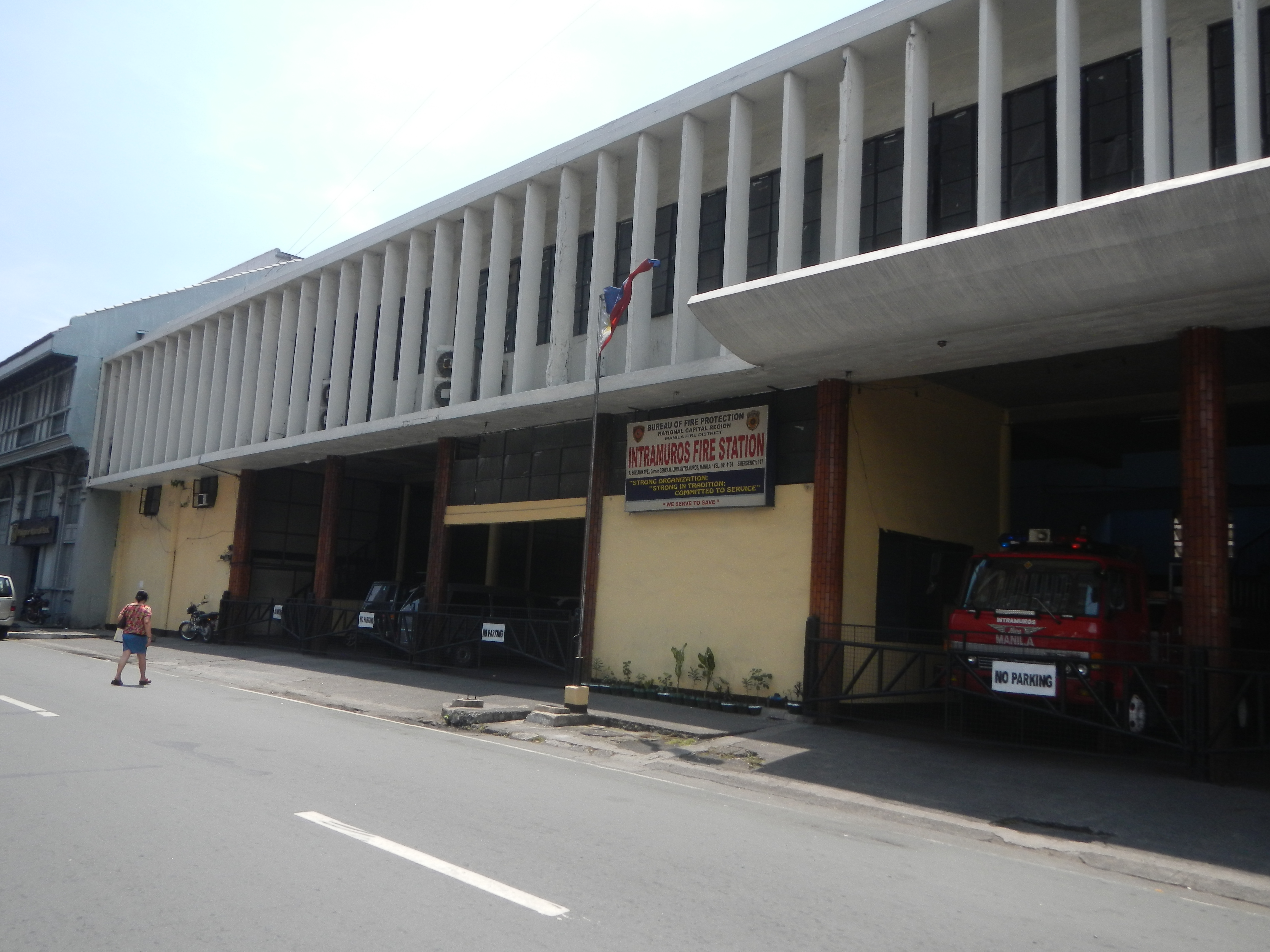 Intramuros, Landmarks include the Manila Cathedral Plaza de Roma, Intramuros King Charles IV of Spain monument, Intramuros along Genral Luna Real de Palacio Street corner A. Soriano, Jr. Avenue (formerly Aduana) corner Arzobizpo Street; Intramuros Fire Station, Bureau of Fire Protection, Plaza de Roma, 1824 bronze statue of Carlos IV of Spain, 1886 Fountain; Main facade-Clock Tower-Belfry; (Note: Judge Florentino Floro, the owner, to repeat, Donor Florentino Floro of all these photos hereby donate gratuitously, freely and unconditionally all these photos to and for Wikimedia Commons, exclusively, for public use of the public domain, and again without any condition whatsoever).